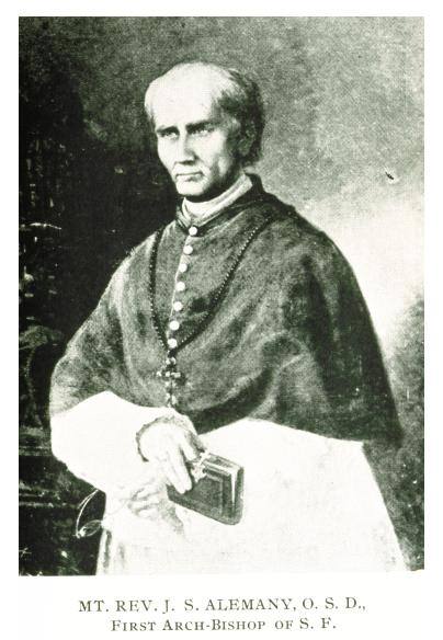 Mt. Rev. J.S. Alemany, O.S.D., first Archbishop of San Francisco, as shown in "Souvenir of Santa Clara College" published for the College's golden jubilee in 1901.